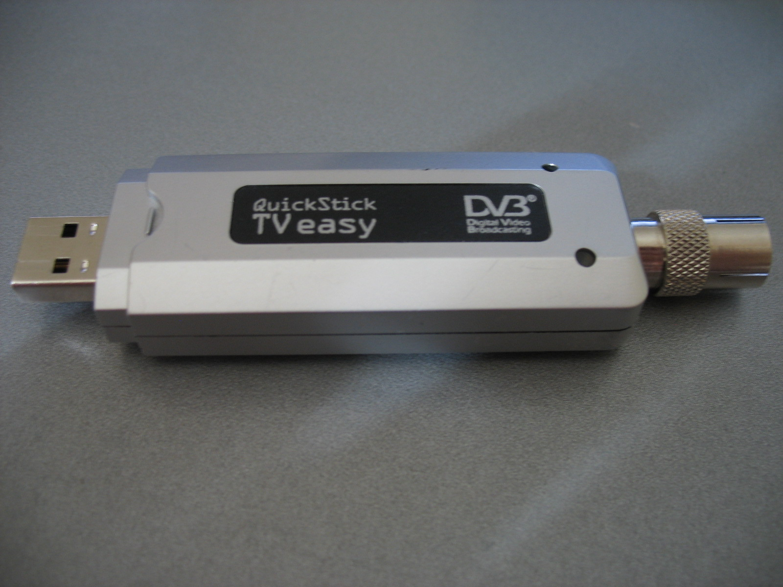 Yakumo DVB-T USB Stick